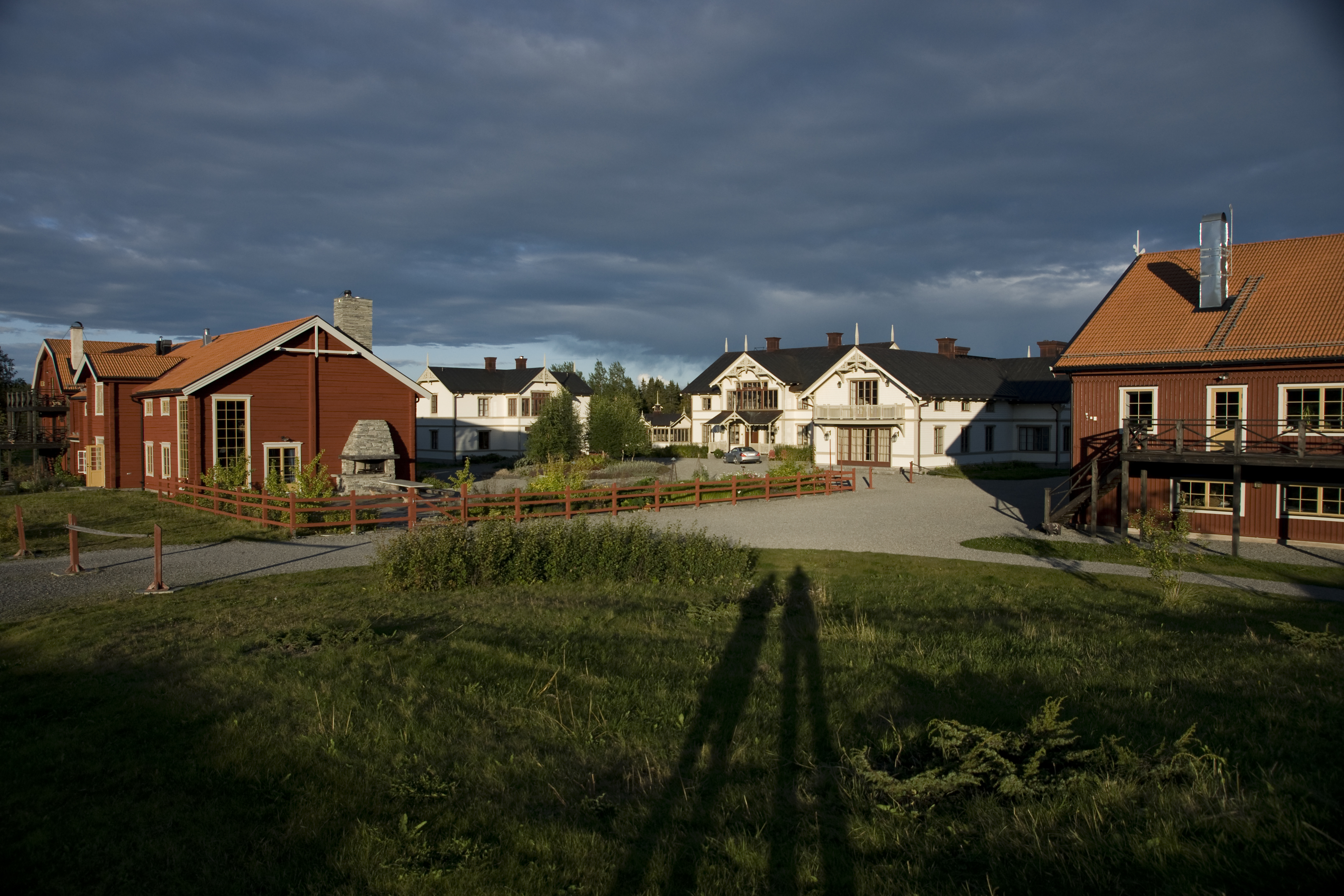 An exterior shot of the Fäviken estate.